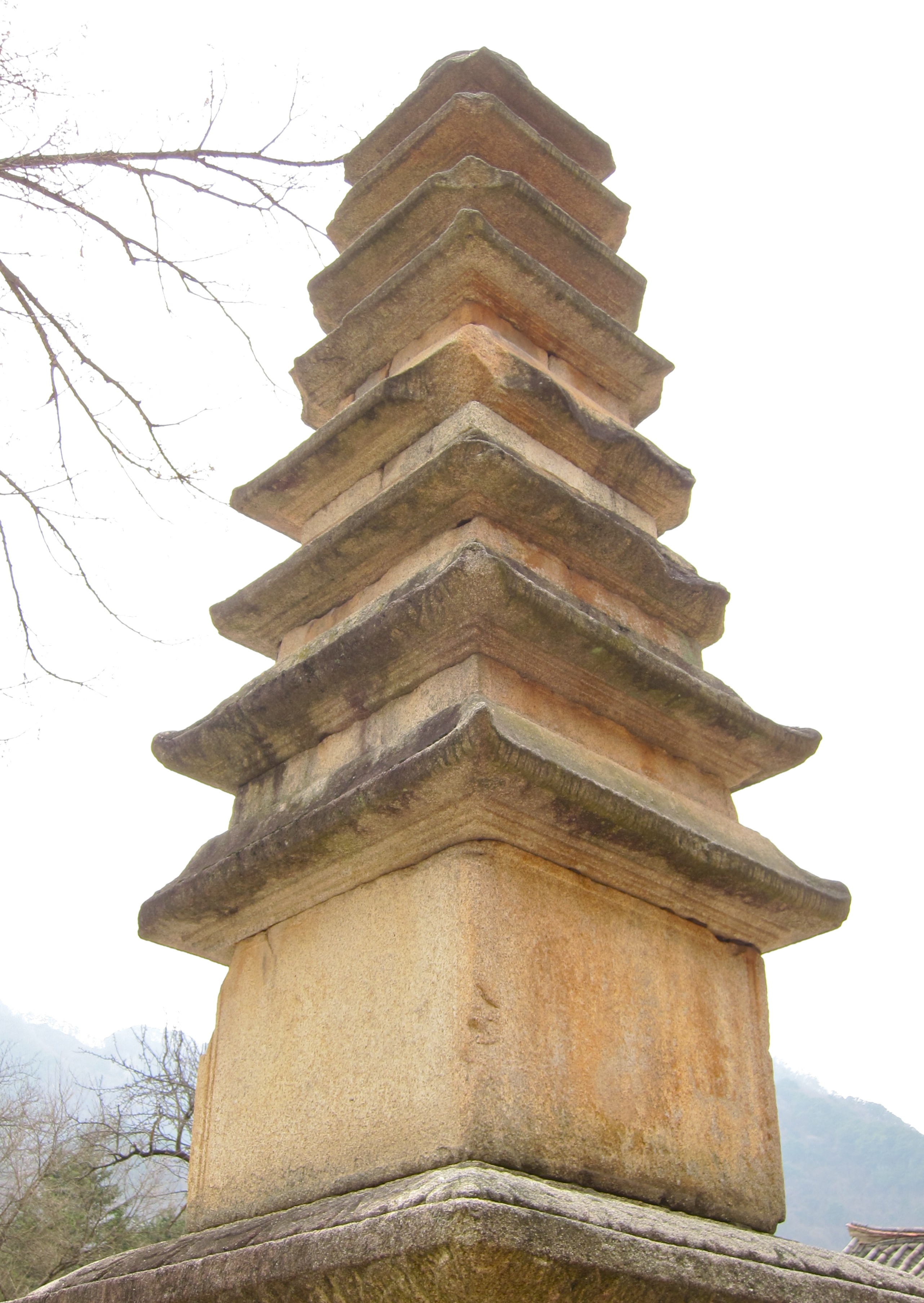 Pohyon Temple; Mt. Myohyang Region, DPRK (North Korea)